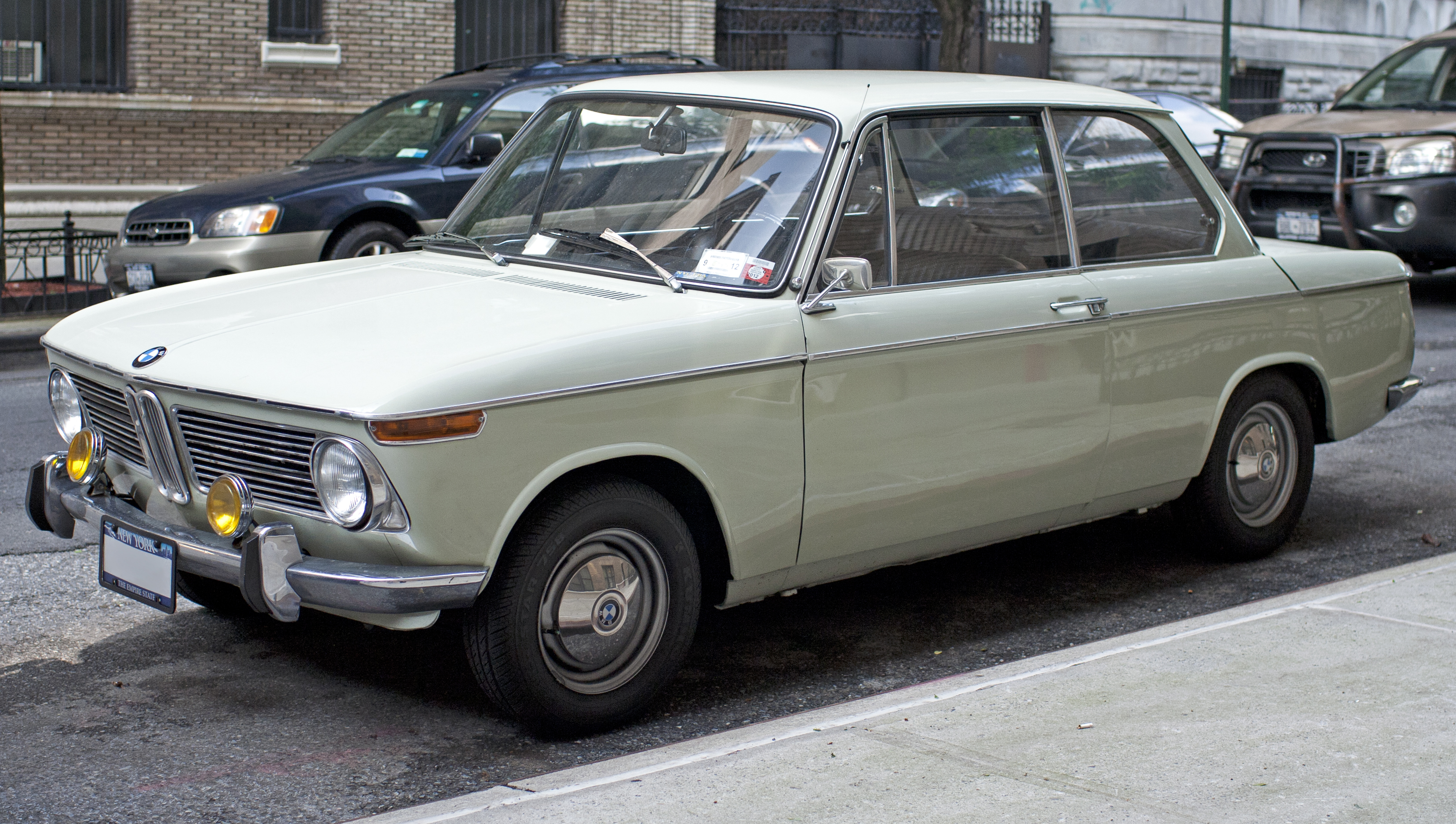 1967 BMW 1600 two-door sedan, usually called "1600-2" to set it apart from the four-door "Neue Generation" cars. This is a private import to the US, fitted with later bumper with bigger horns.